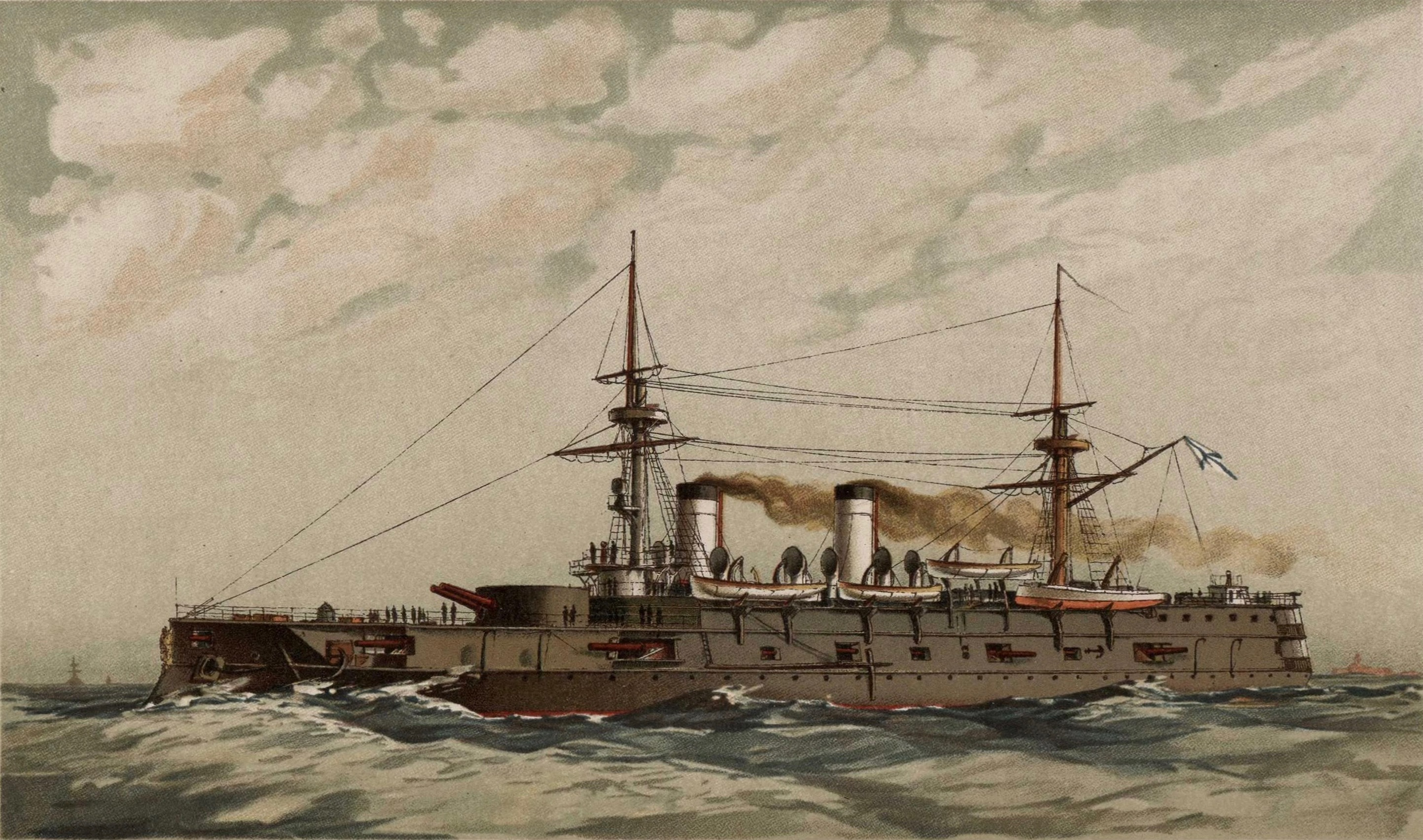 Imperator Nikolai I (ironclad warship)